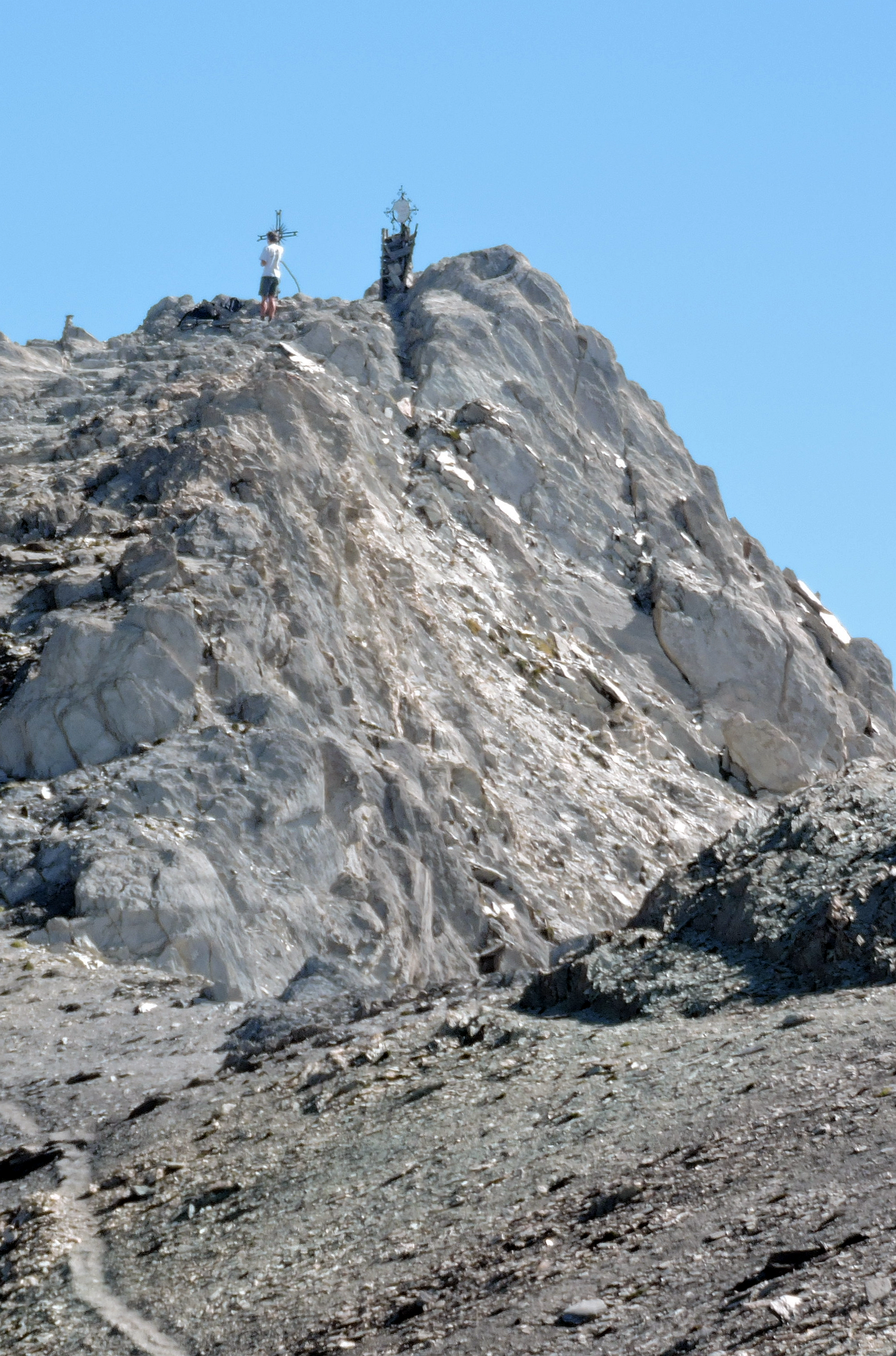 Pointe de Cerces (3097 m): summit